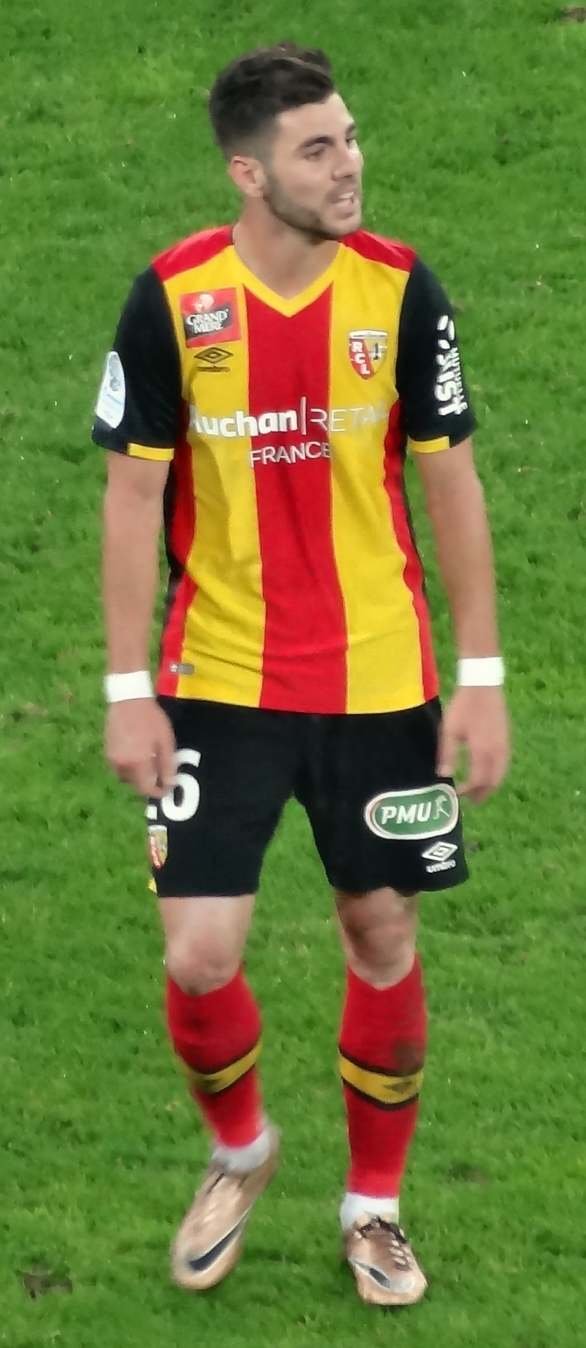 Cristian Lopez (Lens)